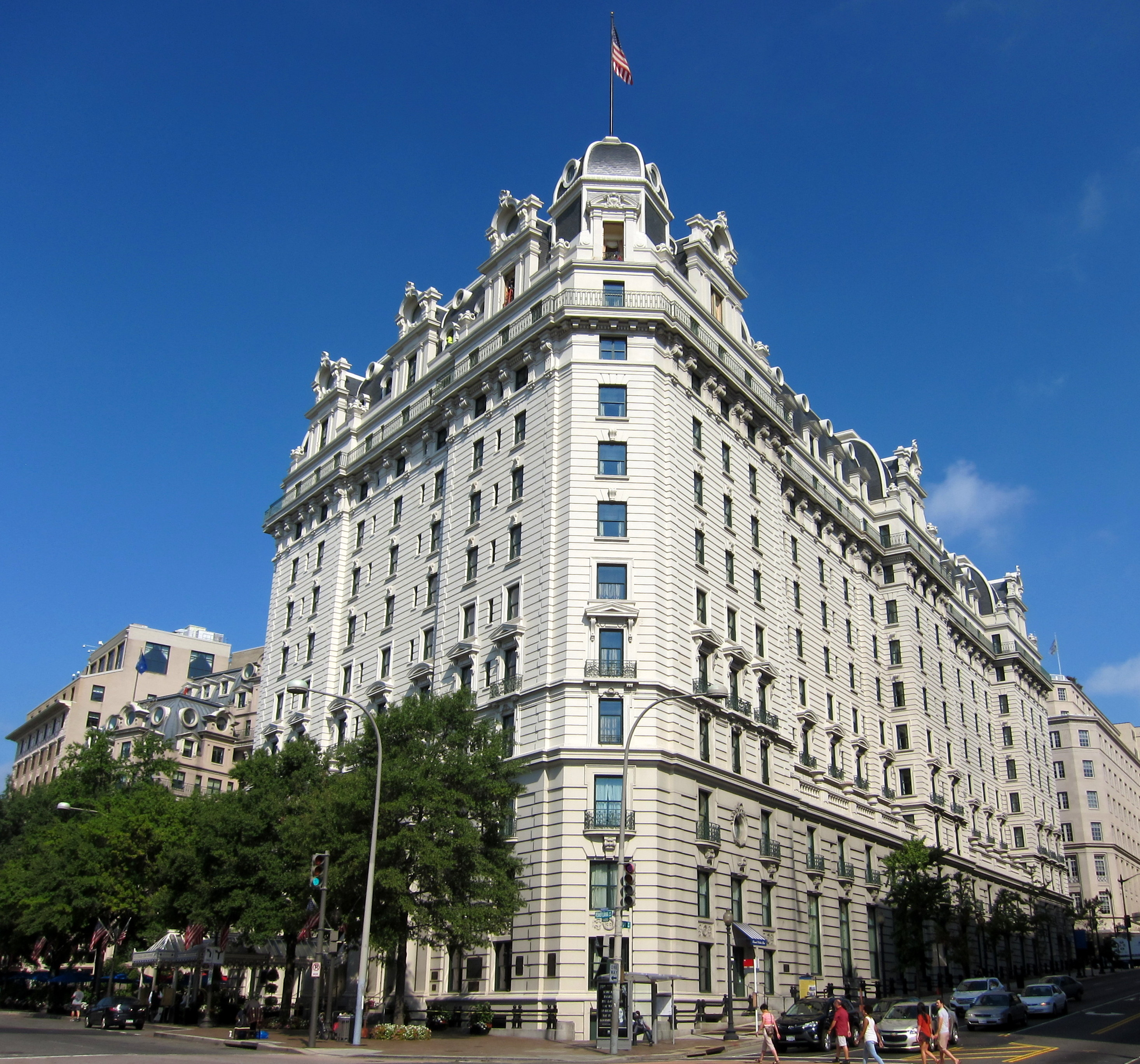 The Willard InterContinental in Washington, D.C.